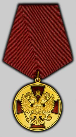 Russian Federation Medal of the Order "For Merit to the Fatherland" 1st Class